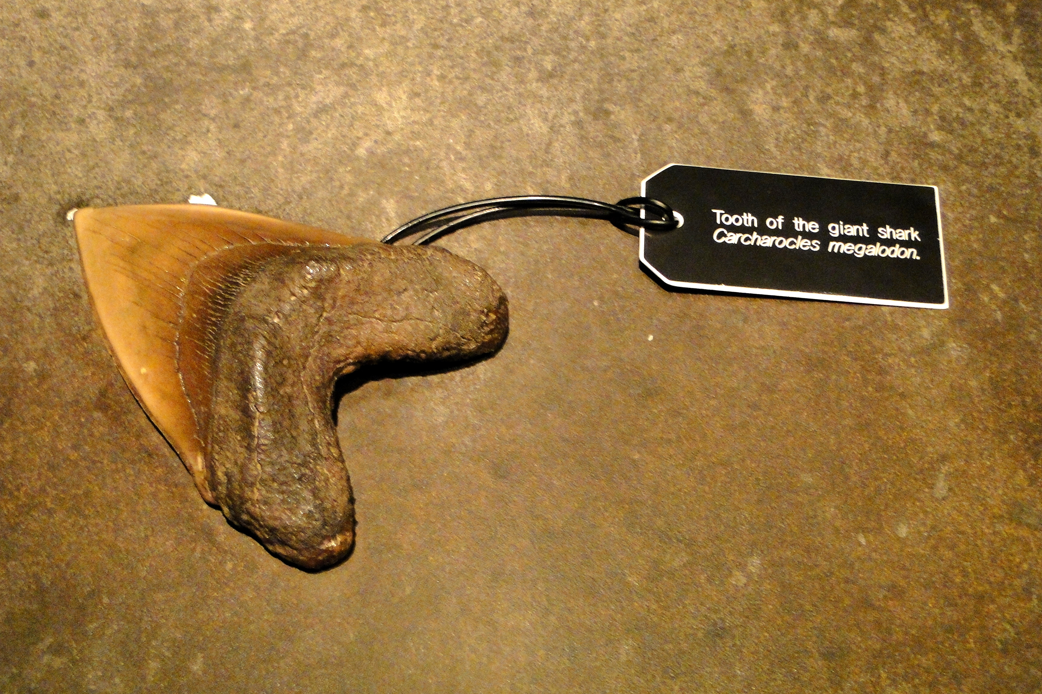 Tooth of Megalodon Shark - Royal BC Museum - Victoria BC - Canada